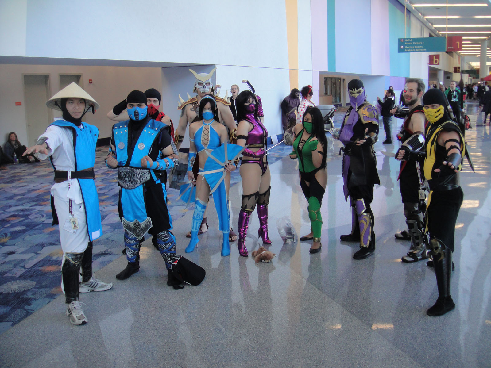 Cosplay of the video game.